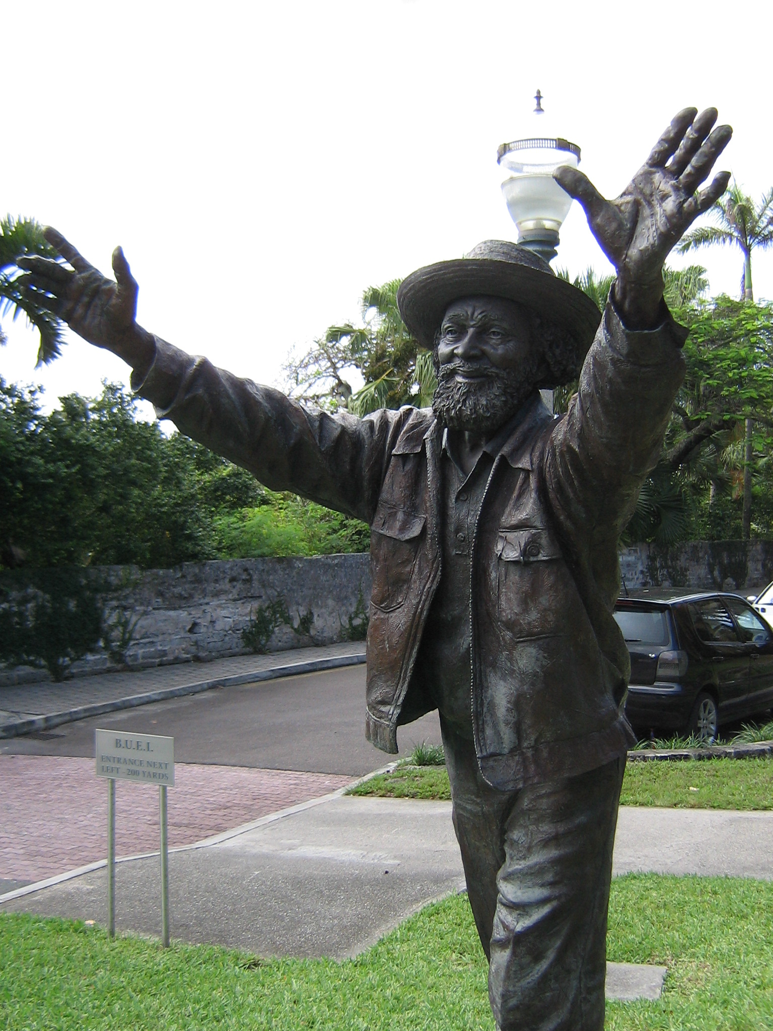 Photo of the statue of Johnny Barnes, Bermuda's friendliest person. Statue created by Desmond Fountain. Taken by User:Etoile.